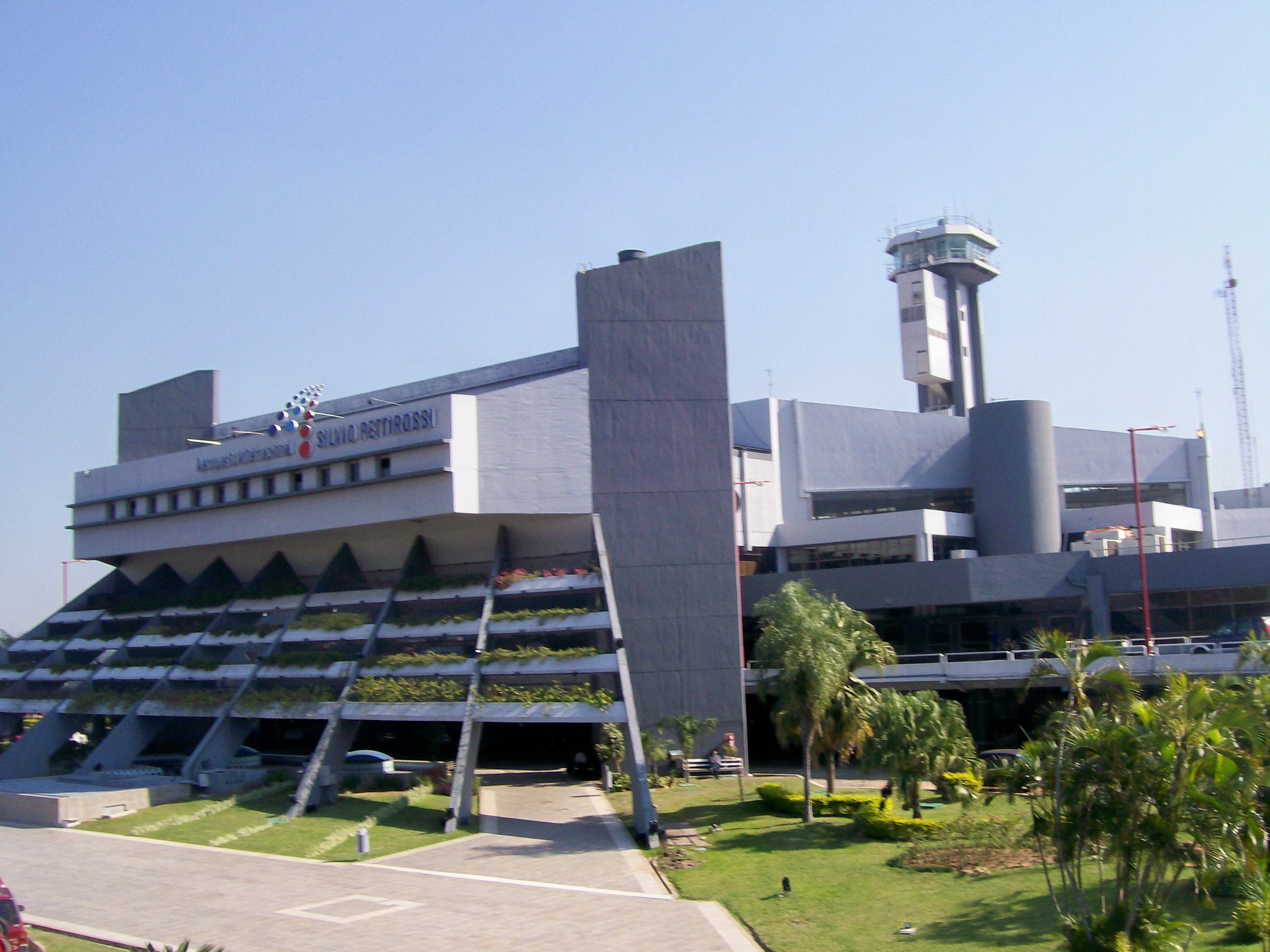 Silvio Pettirossi International Airport Paraguay July 2007